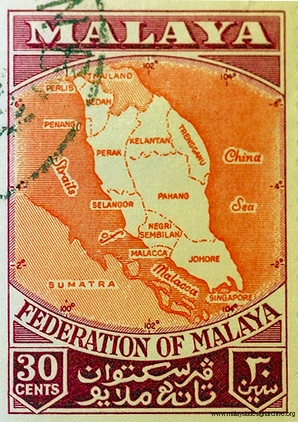 A 30 cent stamp that shows a map of ‘Malaya’. It was issued on May 5, 1957 and was the last stamp issued before Independence day of August 31st, 1957. The calligraphy at the bottom read ‘Persekutuan Tanah Melayu’. Malay for ‘Federated States of Malaya’.